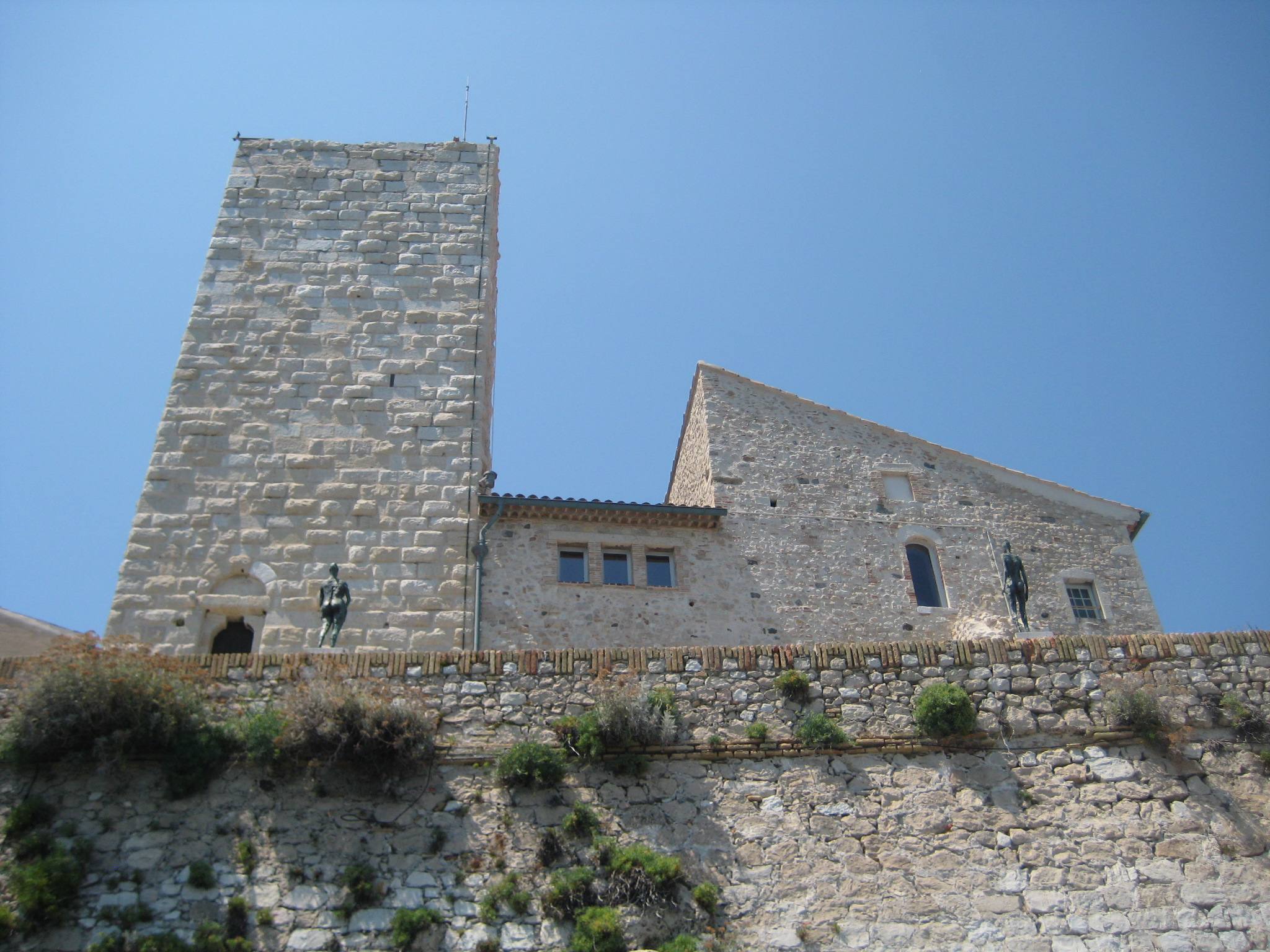 Description musee picasso Antibes Date22 October 2011Sourcemon appareil photoAuthorAimelaimePermission (Reusing this file) musee picasso Antibes